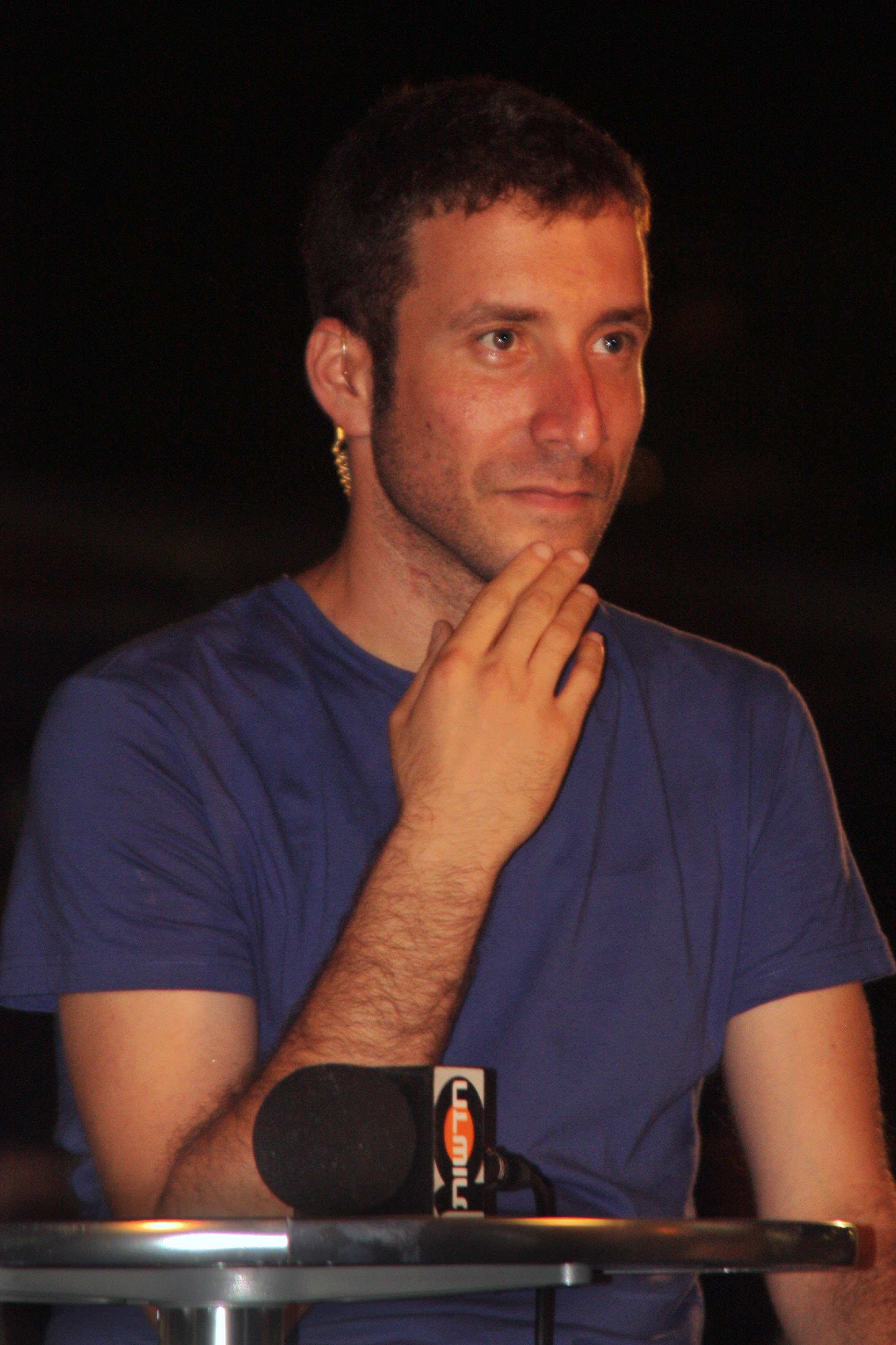 Itzik Shmuli